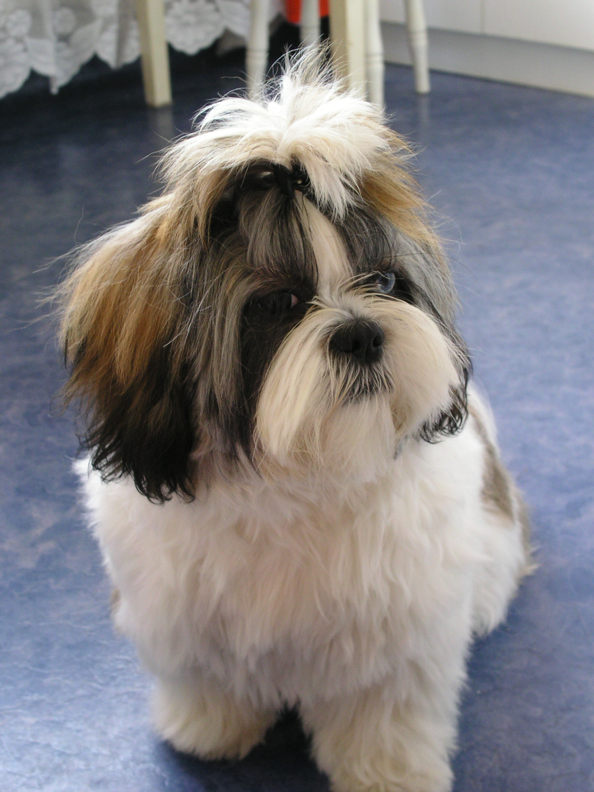 Shih Tzu dog, name: Fibi (female), 1,5 years old on photo